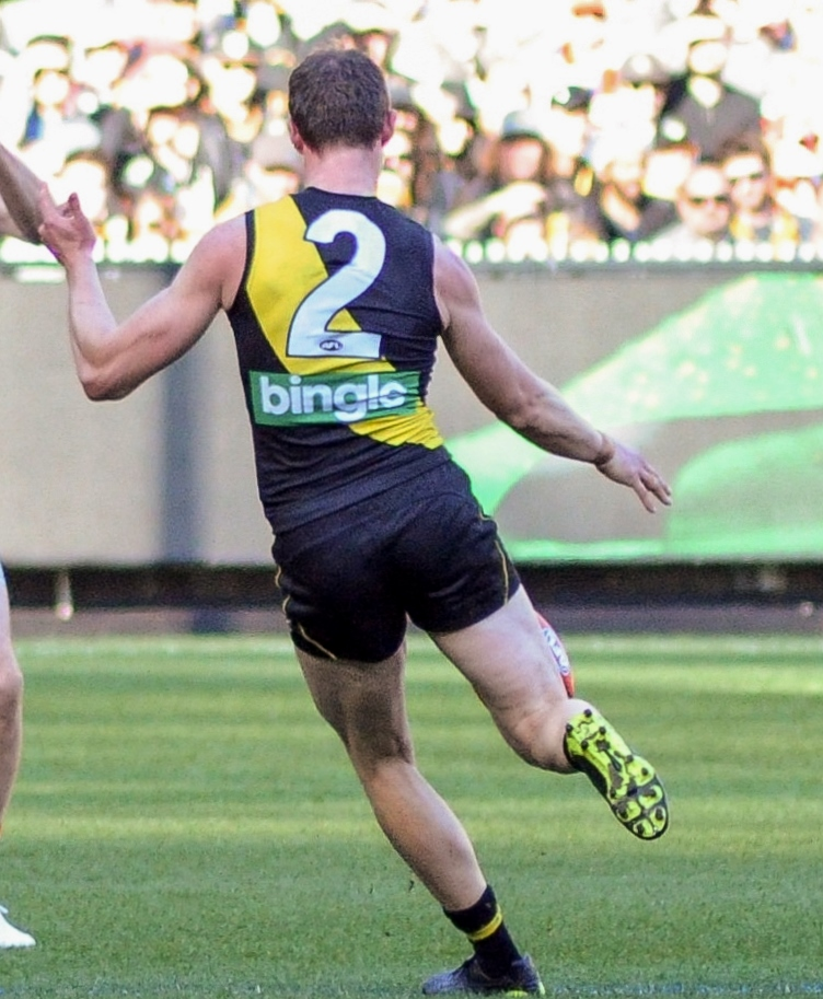 Dylan Grimes kicking during the AFL round thirteen match between Richmond and Sydney on 17 June 2017 at the Melbourne Cricket Ground in Melbourne, Victoria.